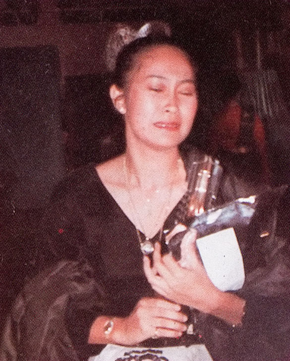 Yenny Rachman with her Citra Award at the 1982 Indonesian Film Festival in Jakarta, received for her performance in Gadis Marathon